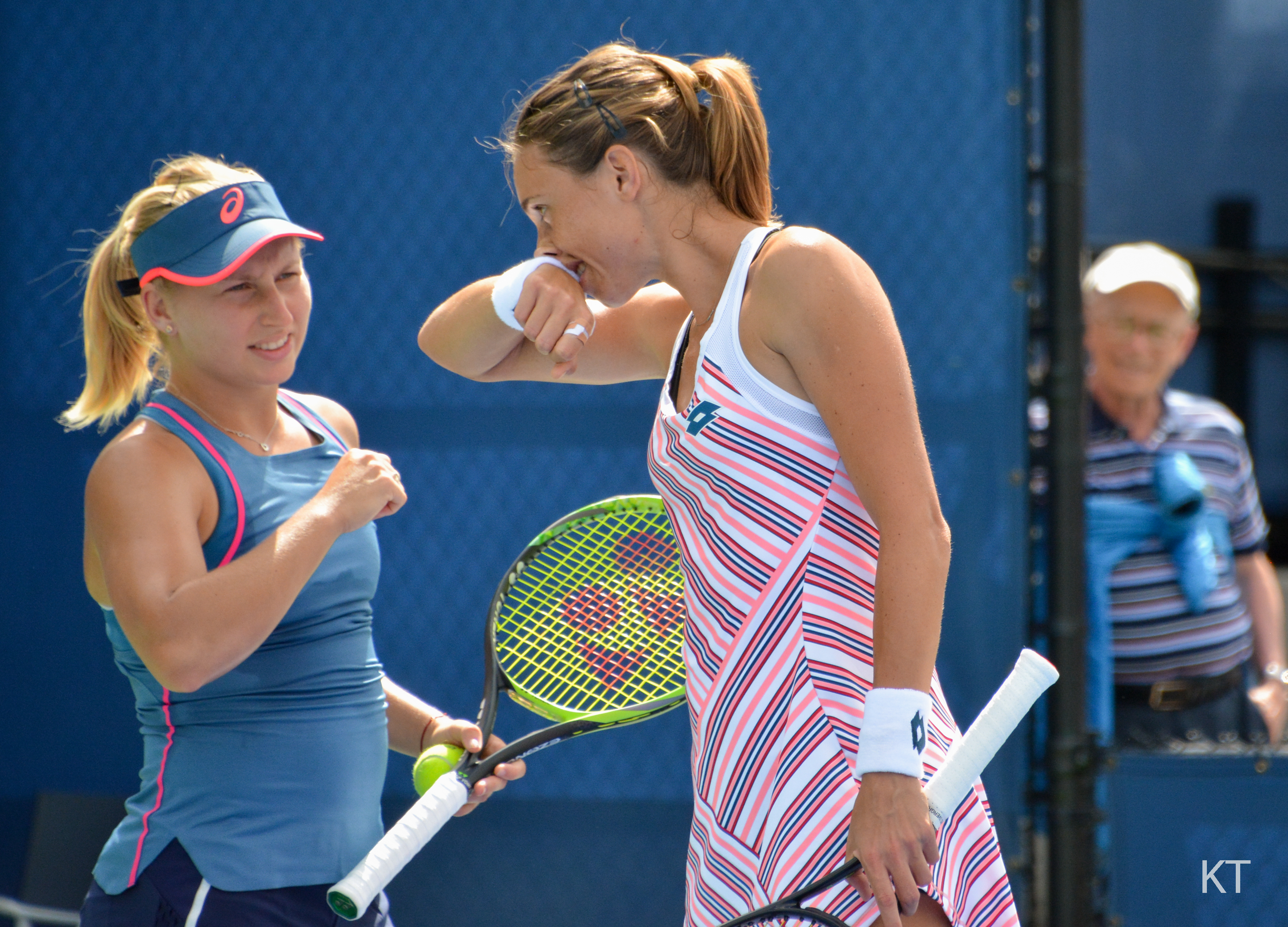 Day 4 of US Open 2018.